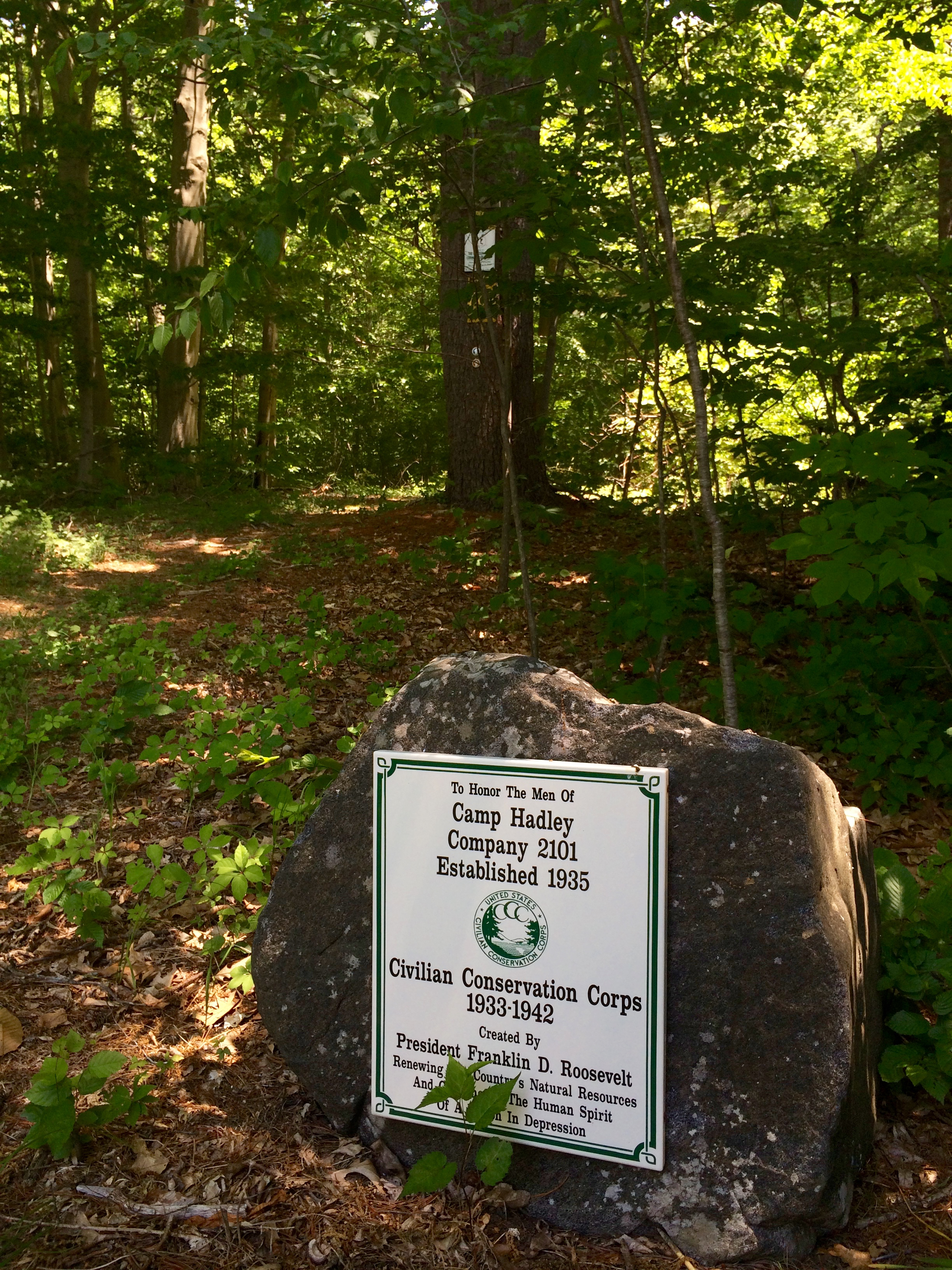 CCC Camp Hadley ruins memorial plaque at entrance off Copse and Warpas Roads.